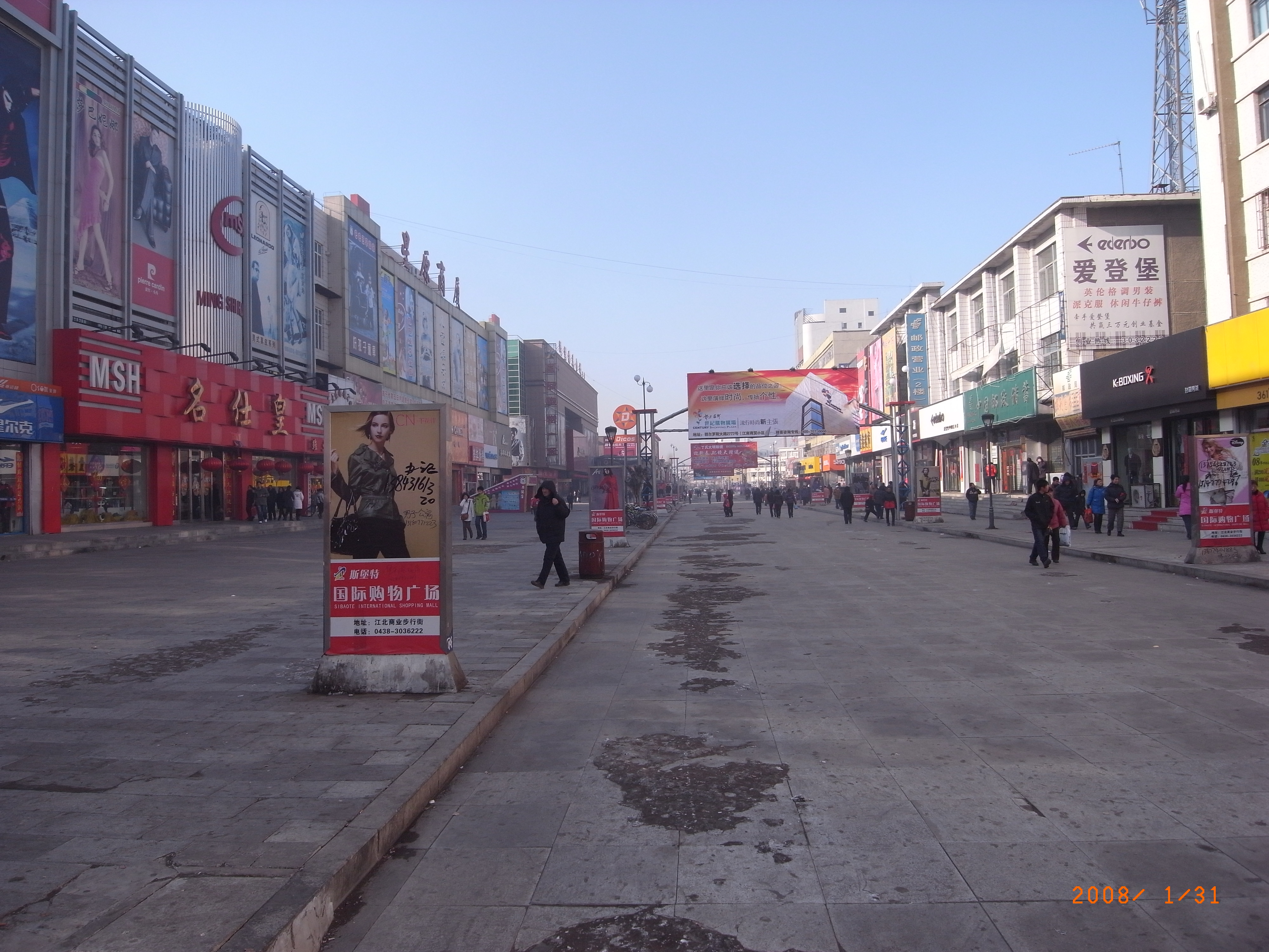 Songyuan